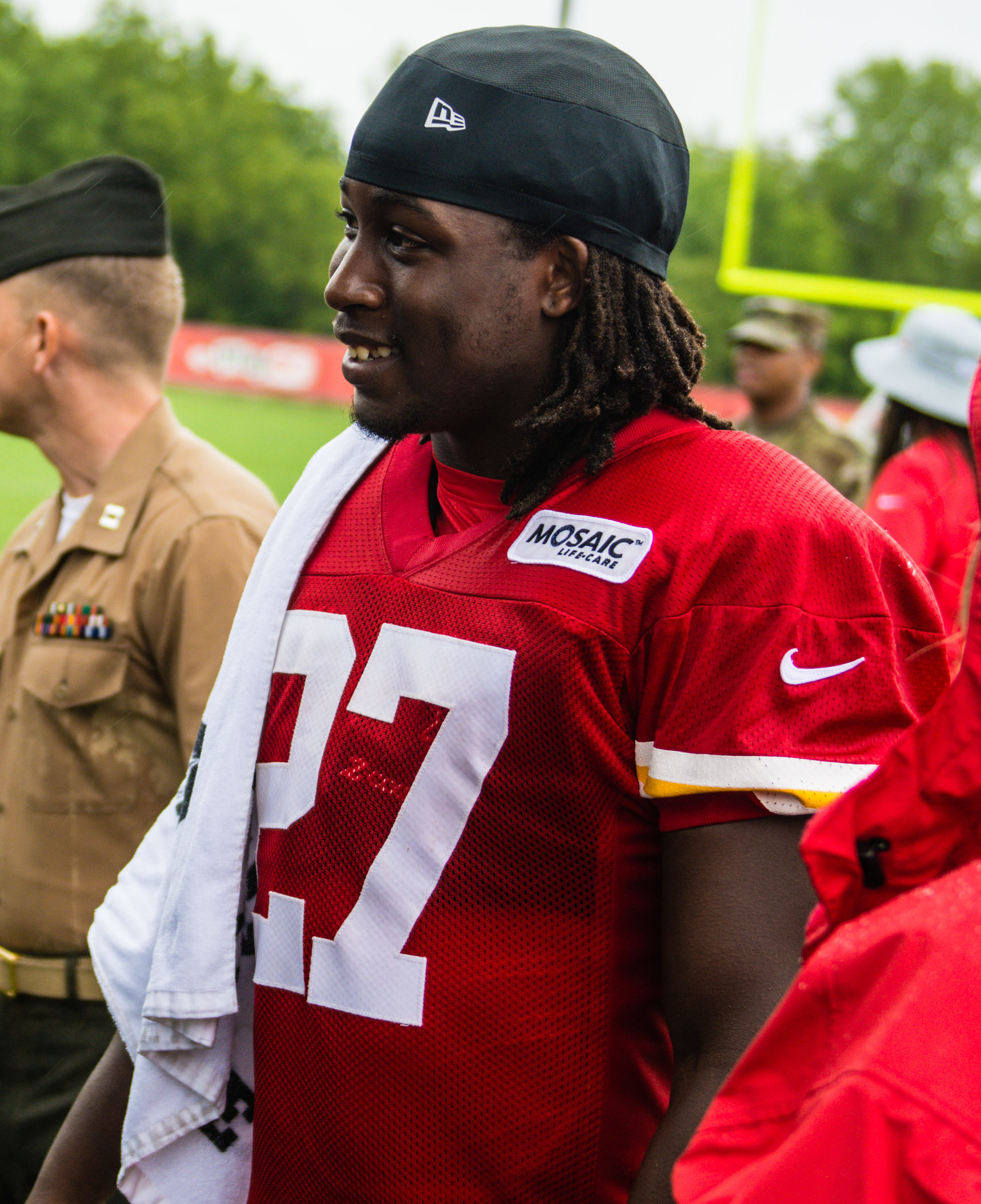 Missouri Gov. Michael Parson (left) talks with Kareem Hunt, a member of the Kansas City Chiefs football team, at the Chief’s training camp in St. Joseph, Mo., Aug. 14, 2018. The Chiefs hosted a military appreciation day on their final day of training. (U.S. Air National Guard photo by Master Sgt. Michael Crane)